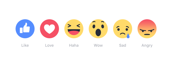 Facebook Reactions buttons.